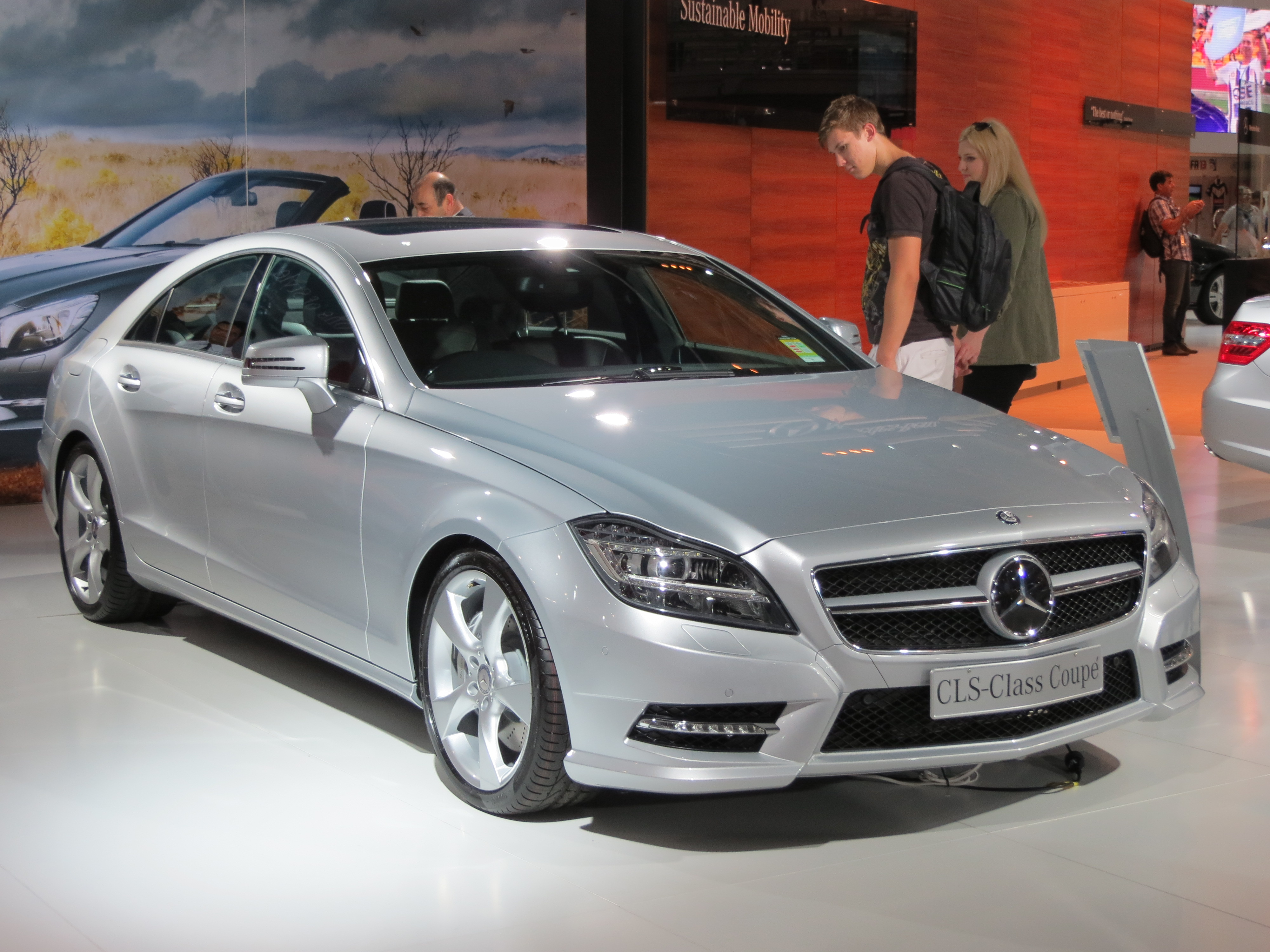 2012 Mercedes-Benz CLS 500 (C 218) BlueEFFICIENCY sedan. Photographed at the 2012 Australian International Motor Show, Sydney, New South Wales, Australia.